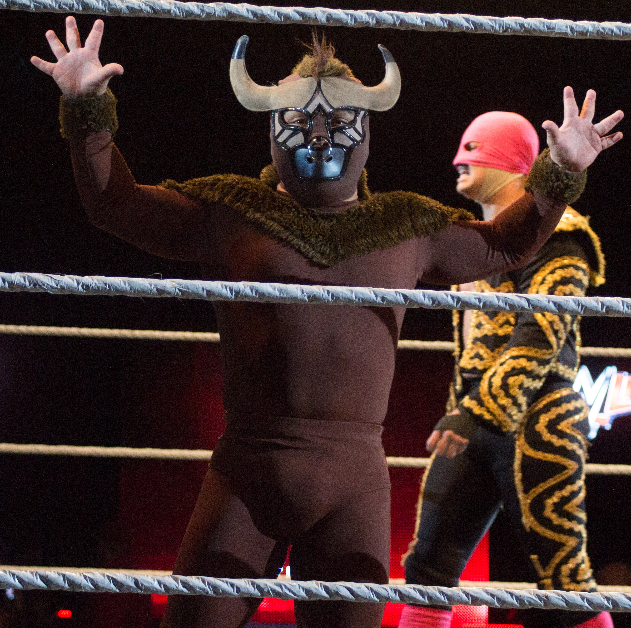 El Torito in January 2015 at Montgomery, AL.